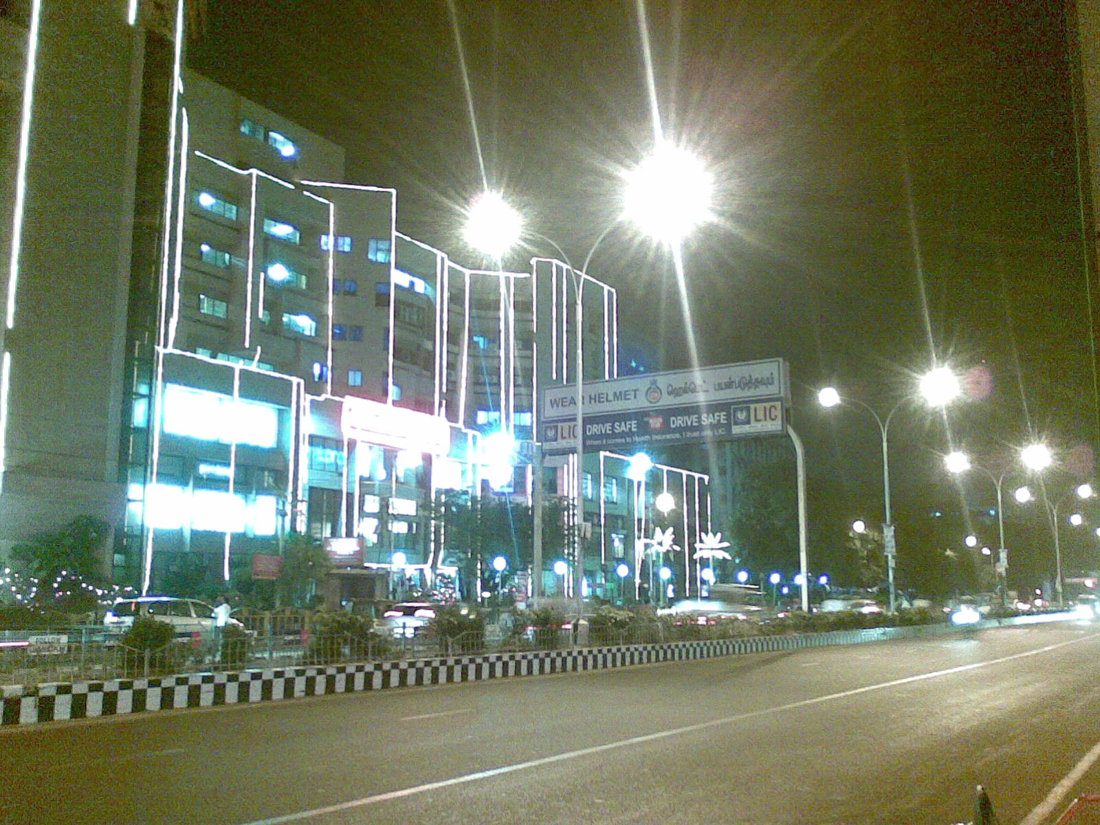 A picture of Spencer Plaza, Chennai at night